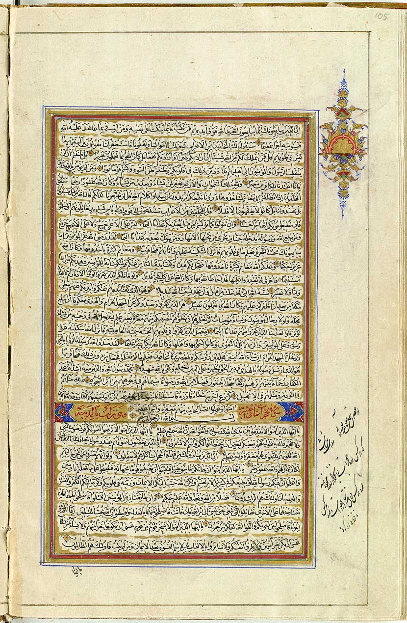 Scan of a Qur'an from the year 1874